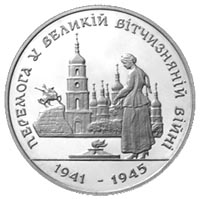 Ukrainian Coin "The Victory 50 anniversary in the Great Patriotic War of 1941-1945"